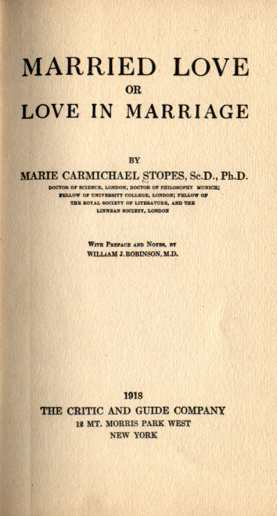 Cover of the first edition of the book Married Love by Marie Stopes (1880-1958), The Critic and Guide Company, New York, 1918.